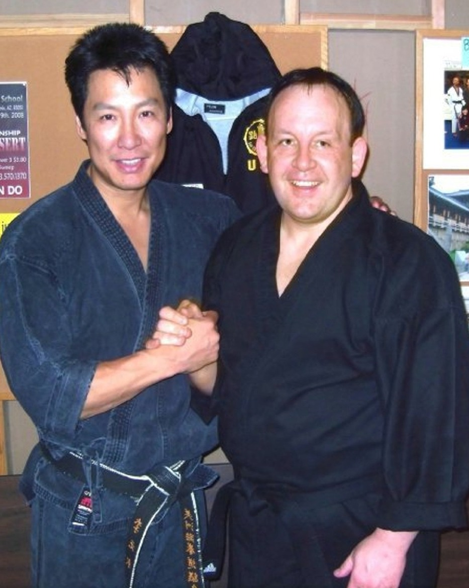 Barry Cook and Phillip Rhee